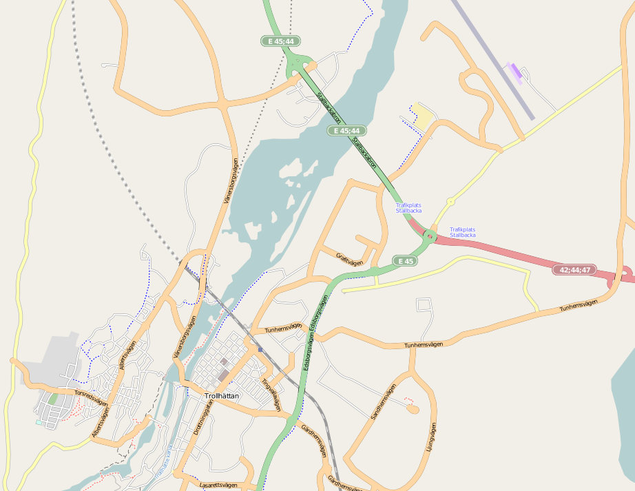 Trollhaettan Map - Escala 1:54500